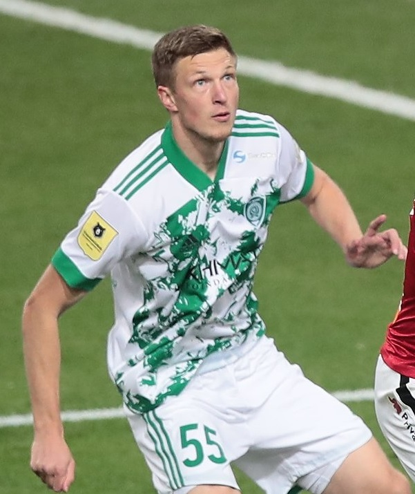 Aleksandr Putsko with FC Akhmat Grozny in a game against FC Spartak Moscow.